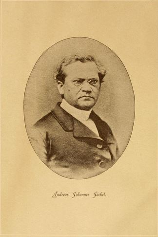 Andreas Johannes Jäckel (1822-1885)